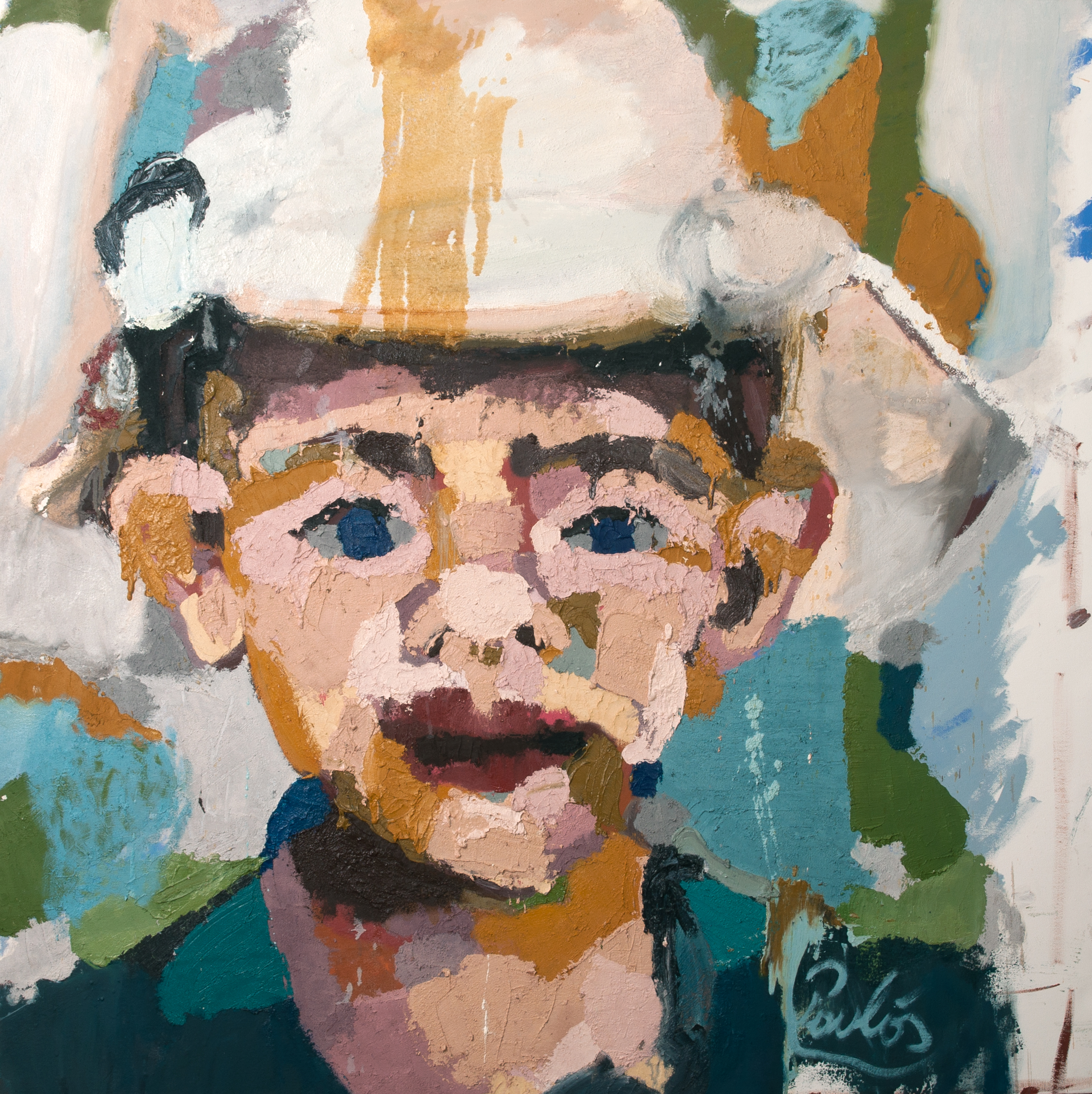 White Hat, 2011.